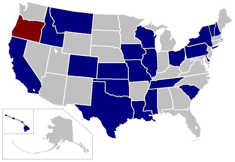 modified blank USA map from wikimedia commons